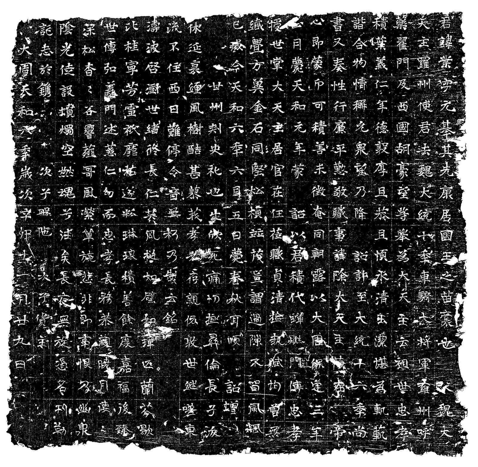 The rubbing of Kʻang Yeh’s epitaph.